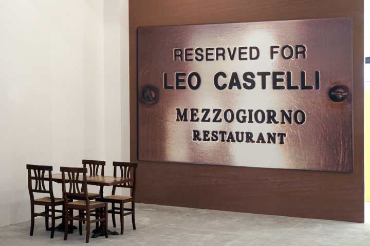 "Reserved for Leo Castelli"